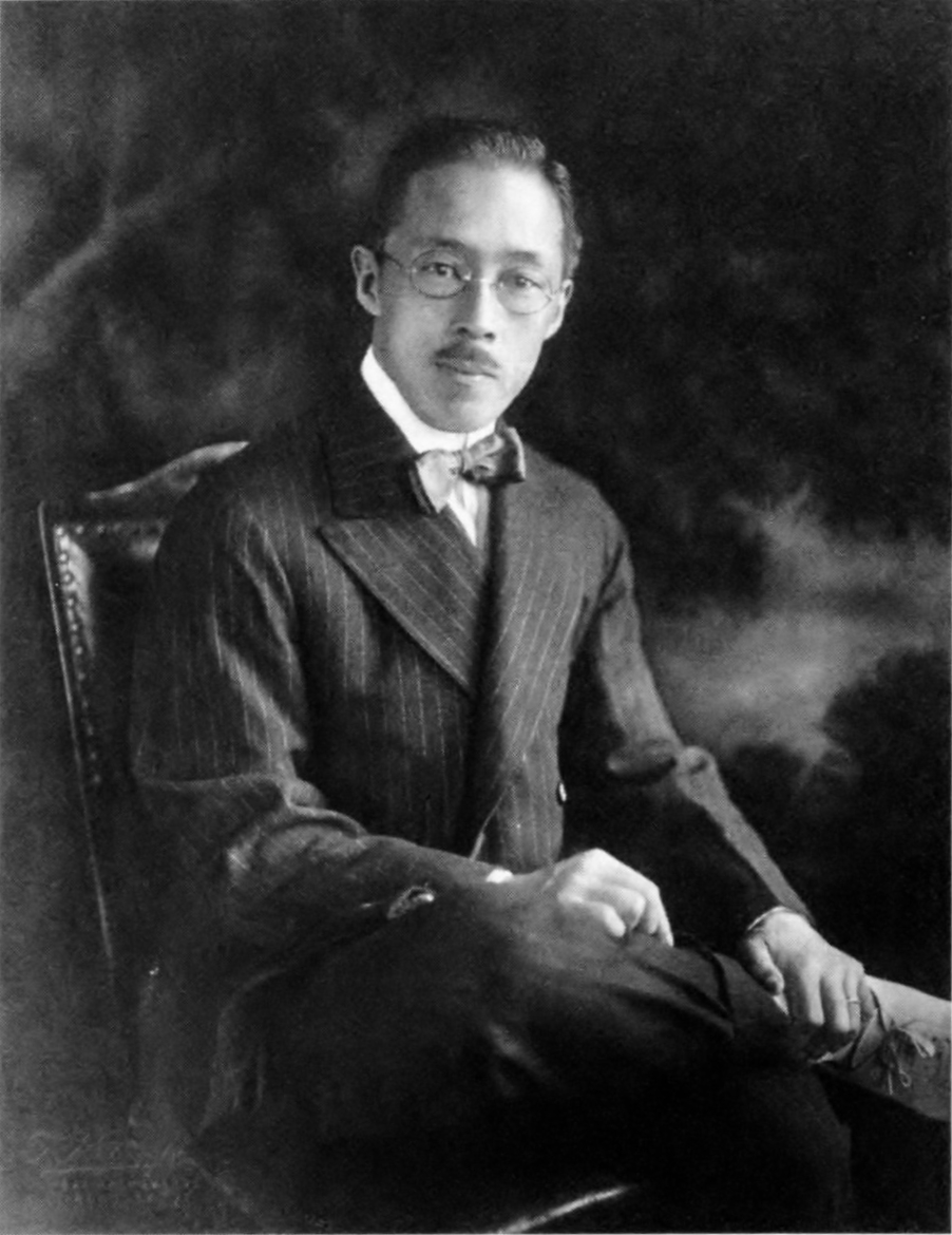 Tokugawa Yoshihisa